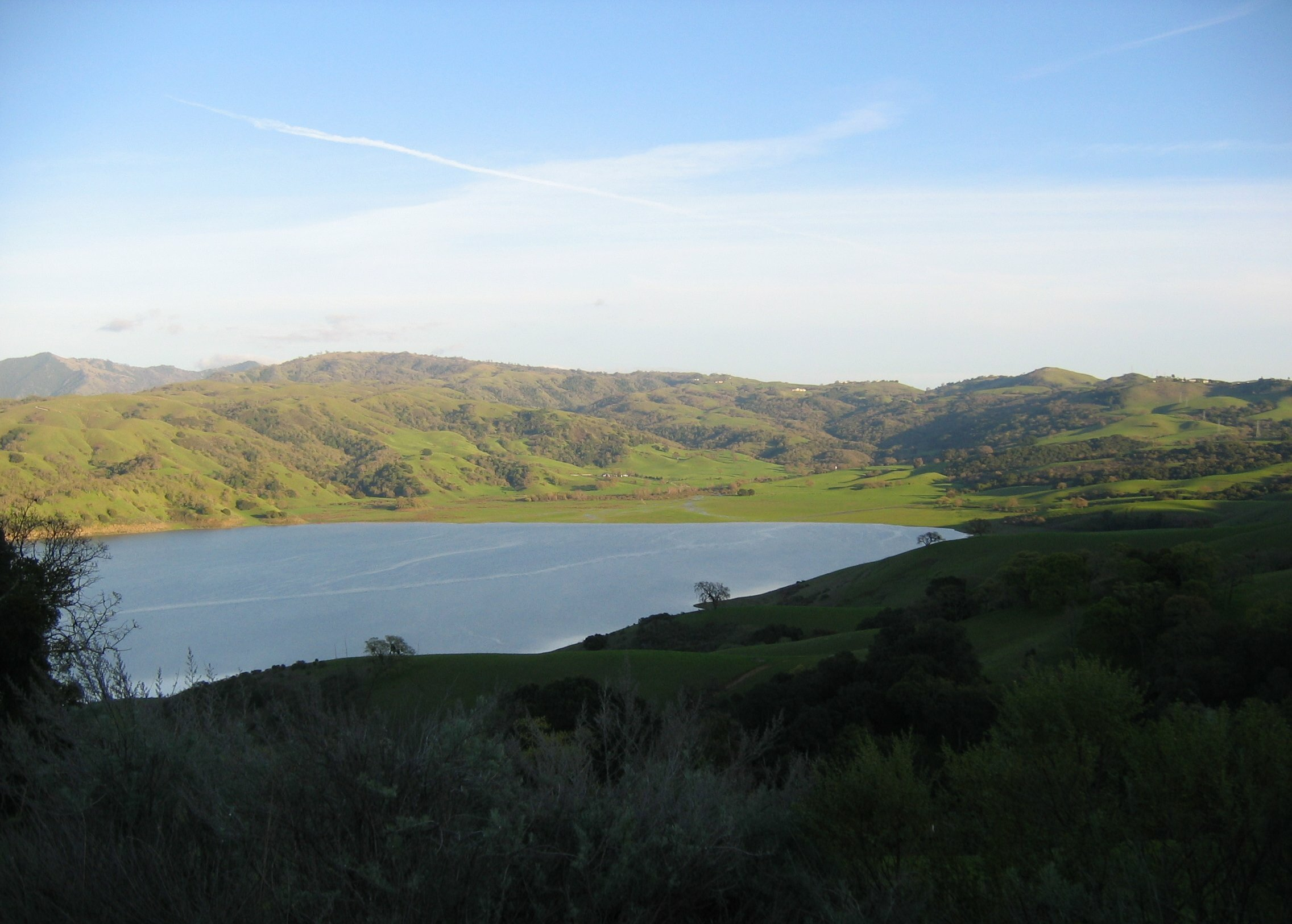 Calaveras Reservoir, California.Created: March 26th, 2006